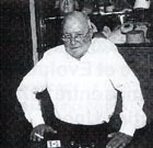 Michel Hatte's portrait